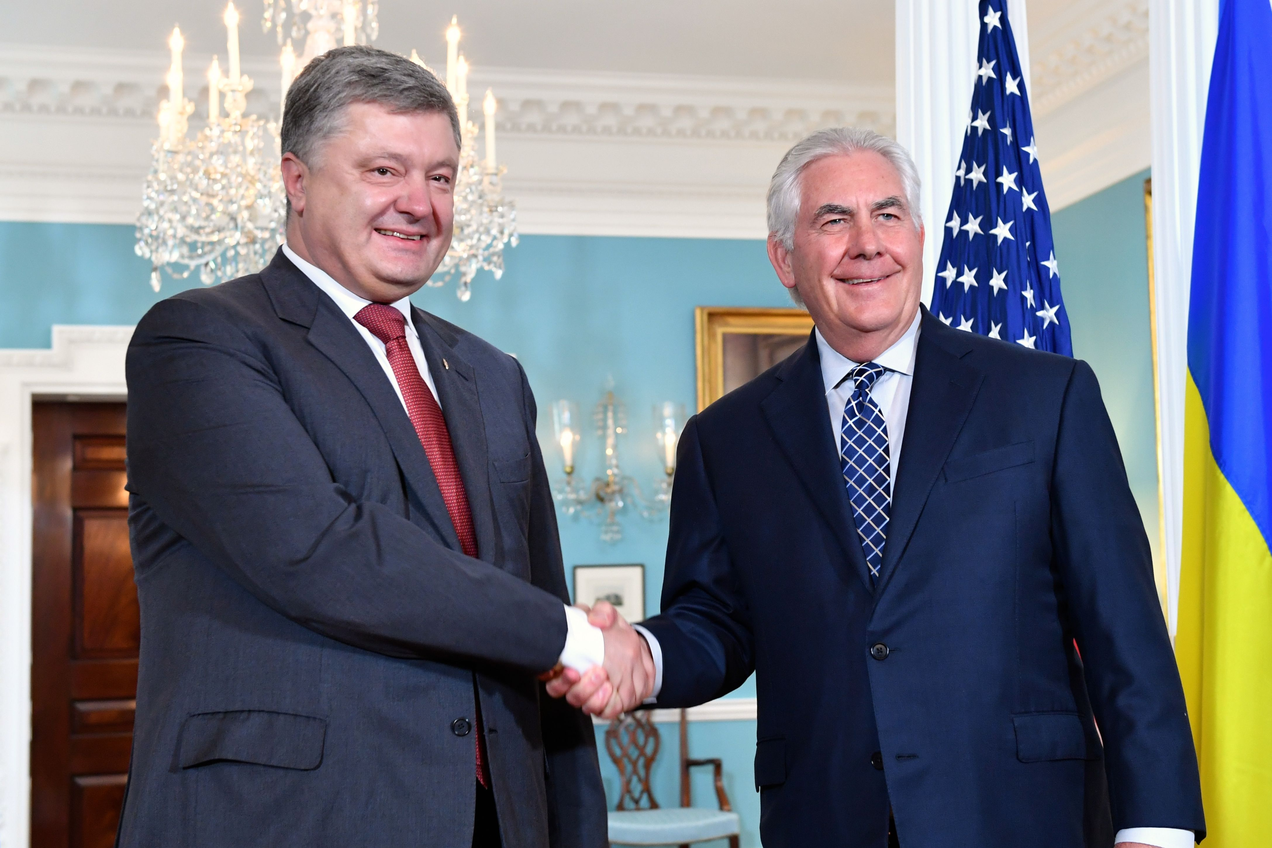 U.S. Secretary of State Rex Tillerson and Ukrainian President Petro Poroshenko shake hands before their bilateral meeting at the U.S. Department of State in Washington, D.C., on June 20, 2017. [State Department photo/ Public Domain]